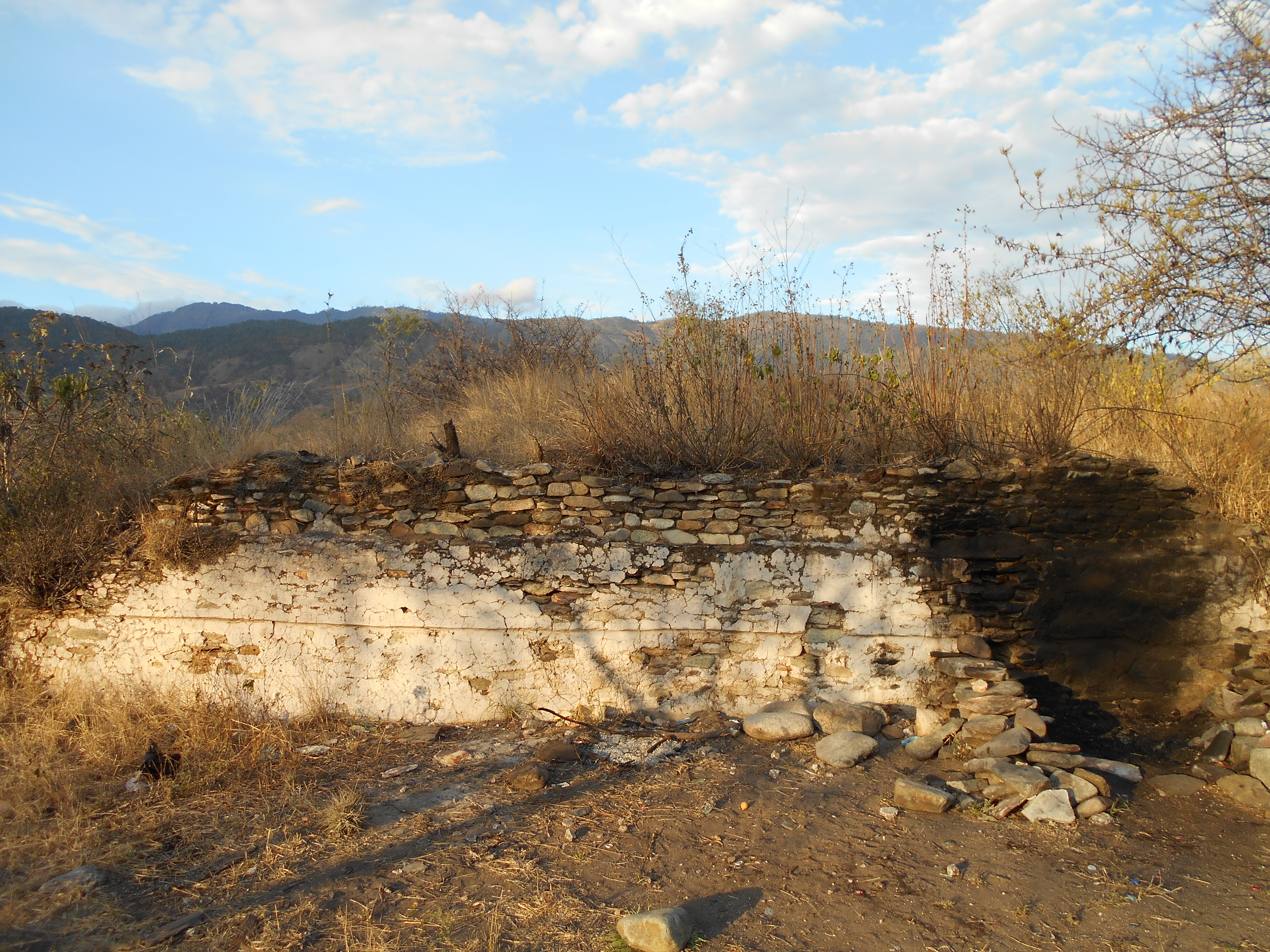 Postclassic Maya ruin of Chutixtiox, near Los Trapichitos, Sacapulas, El Quiché, Guatemala.